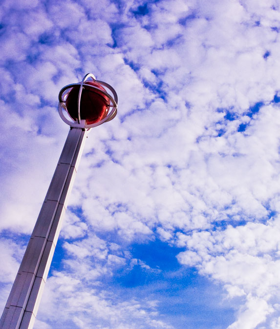 Kept seeing this on my way to and from Boston. Taken while highway driving. Didn't realize it was a basketball until I looked at the photo.